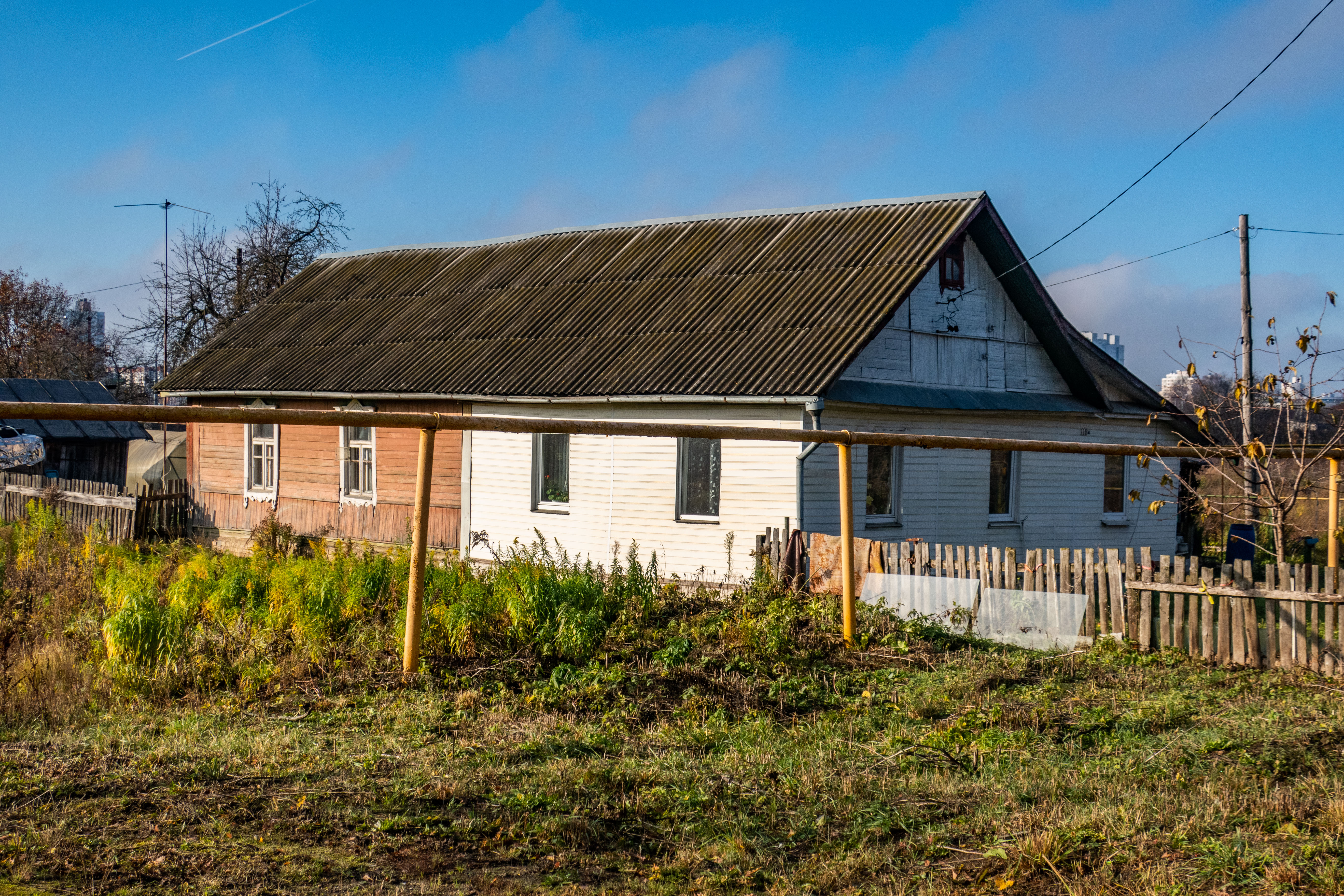 Čyžeŭskich street. Minsk, Belarus